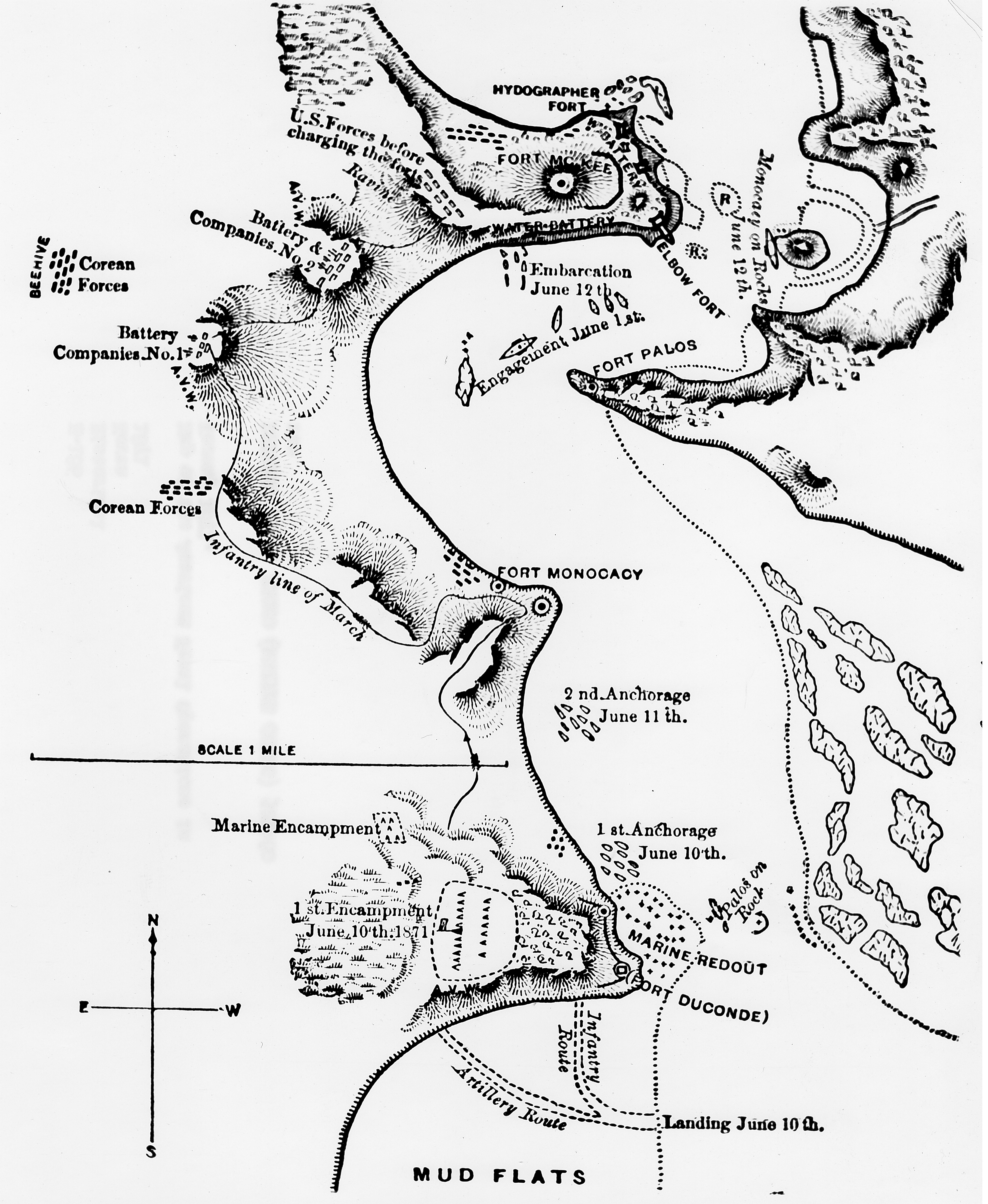 American map of Korean forts on Ganghwa Island during the United States expedition to Korea, 1871. The maps depict forts, named by the U.S. navy warships which took part in their destruction in the Battle of Ganghwa.